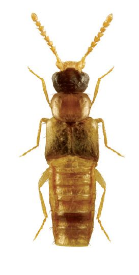 Dorsal view of Gyrophaena (G.) gilvicollis (apical part of abdomen removed).